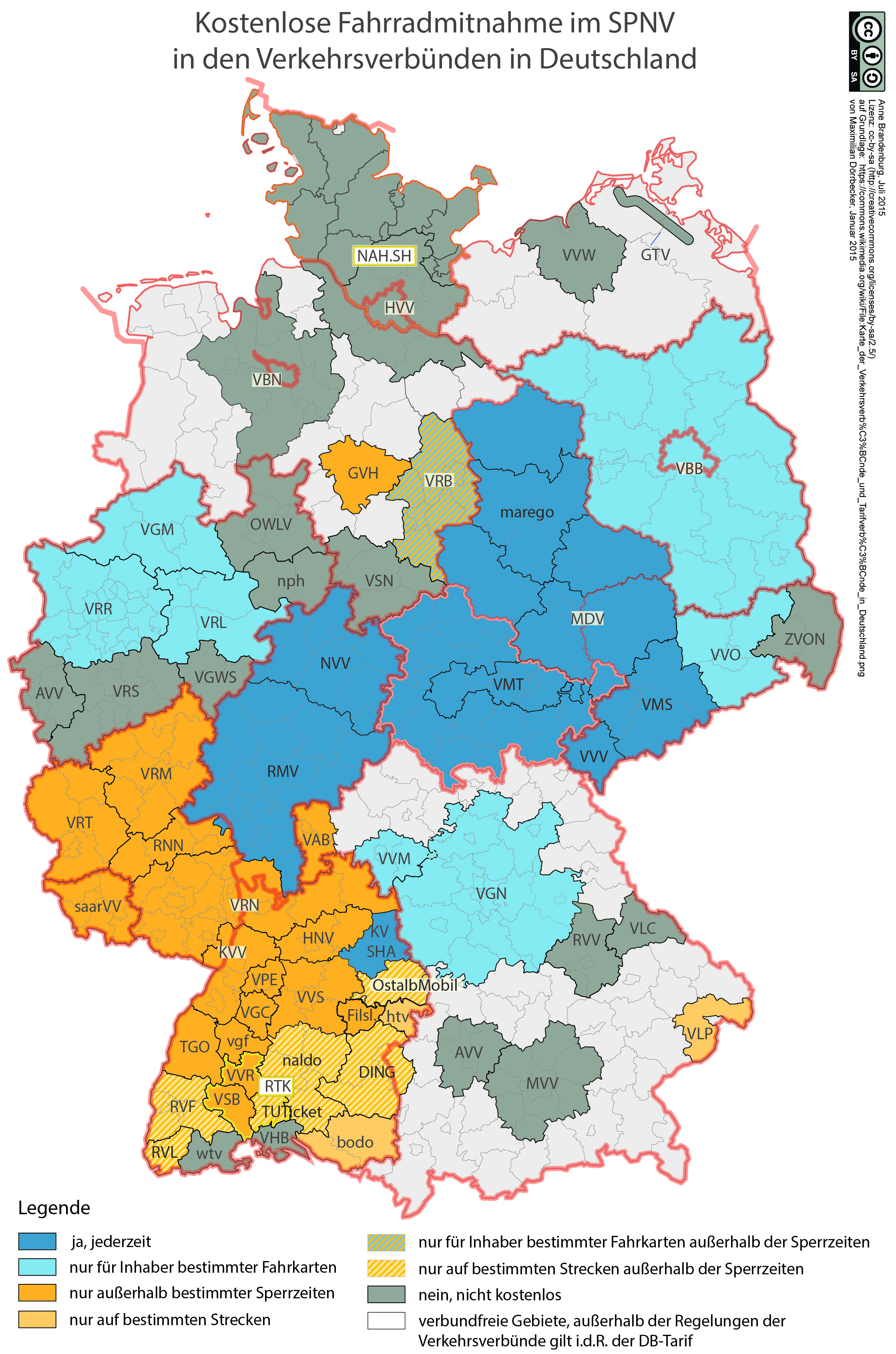 Map showing free of charge bike transports in German transport associations